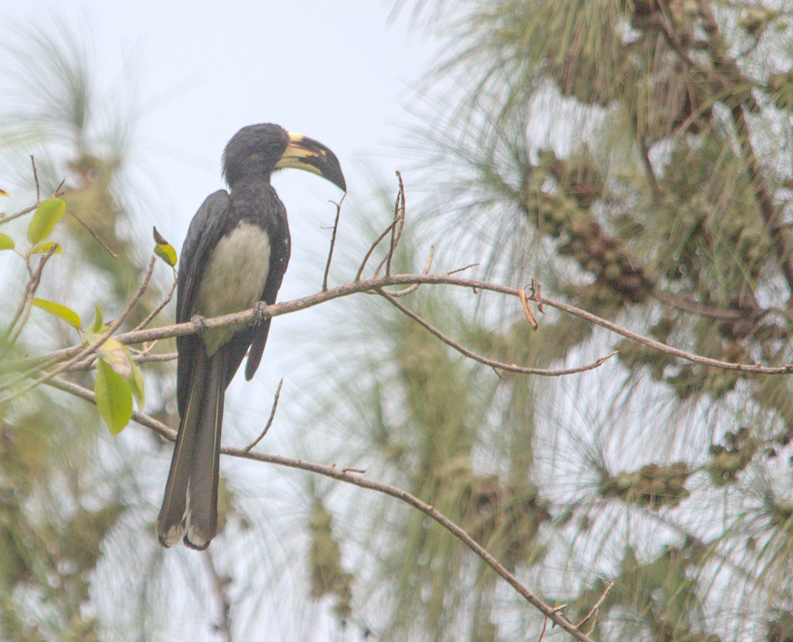 Birds are nice in Gambia